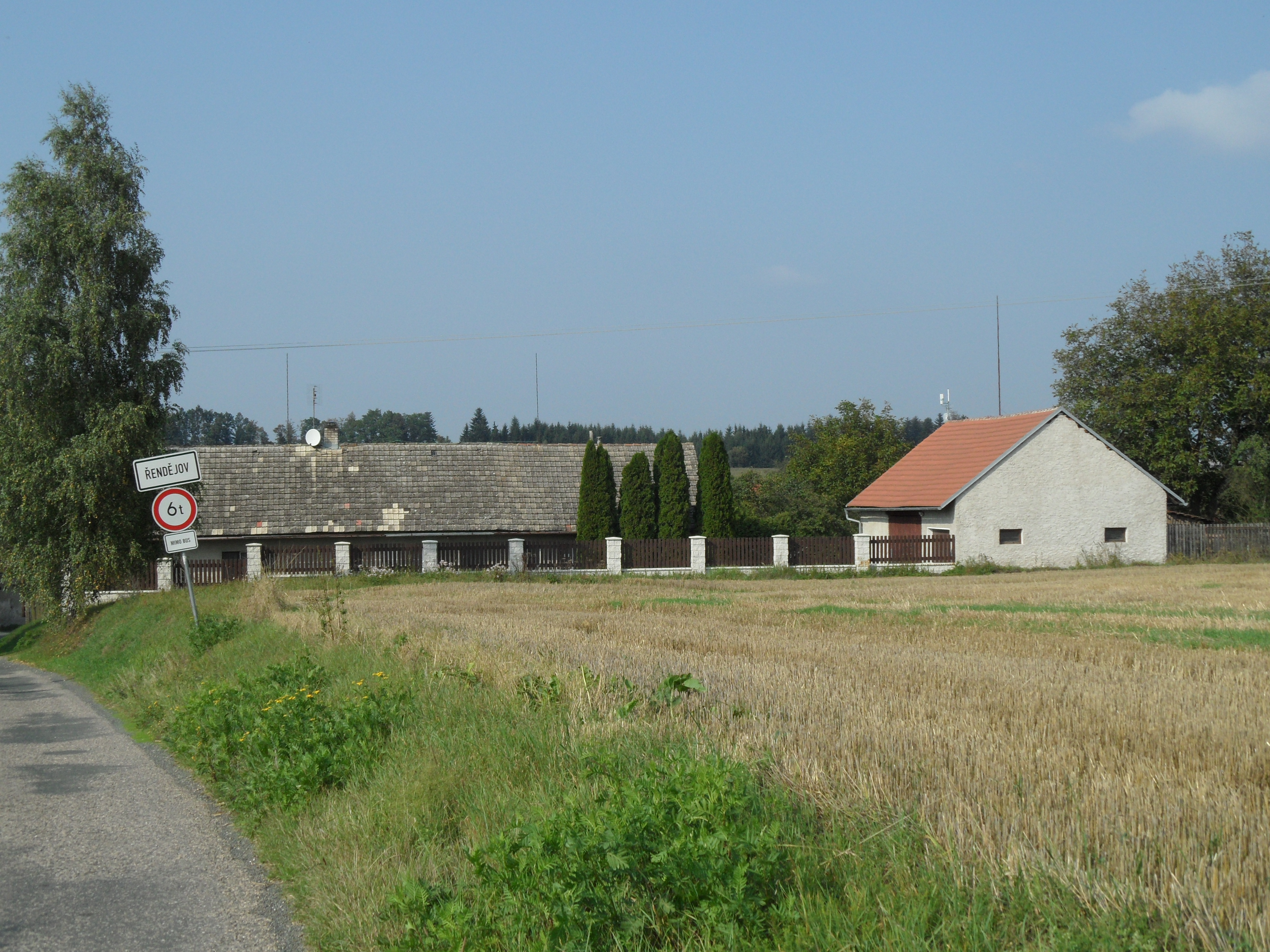 Řendějov A. Road from Chabeřice, Big House on the Right, Kutná Hora District, the Czech Republic.